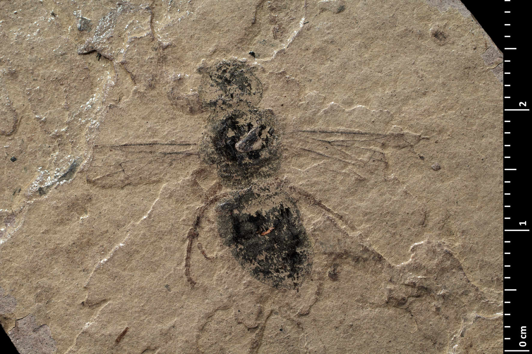 The Palaeovespa menatensis holotype specimen with direct lighting. Thanetian, Paleocene; Menat Formation, Menat Basin, Puy-de-Dôme, France Muséum national d'Histoire naturelle specimen MNHN.F.A57304